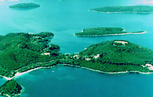 Prigkiponisia, islands in Lefkada, Greece